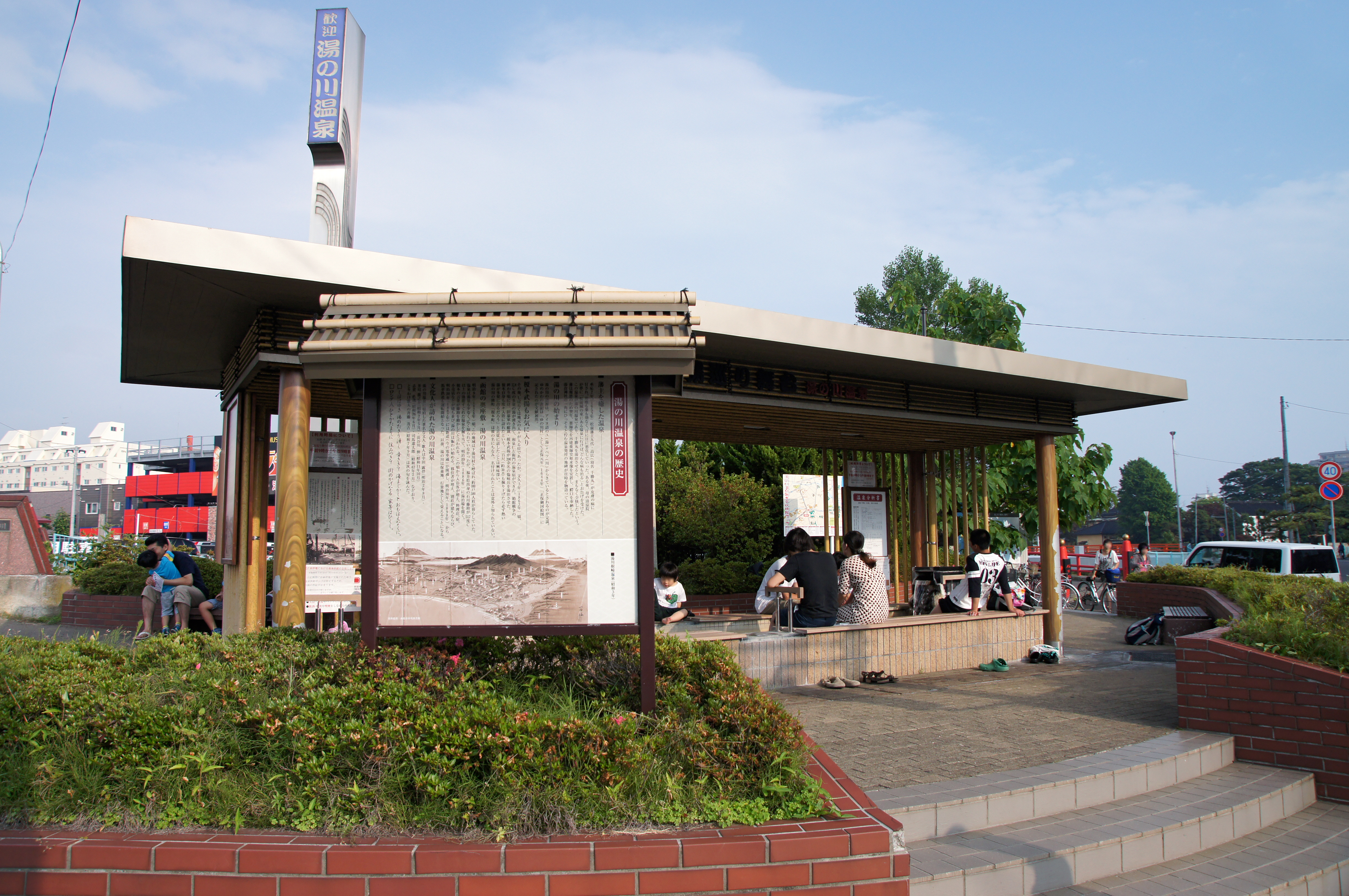 Yunokawa Onsen in Hakodate, Hokkaido prefecture, Japan